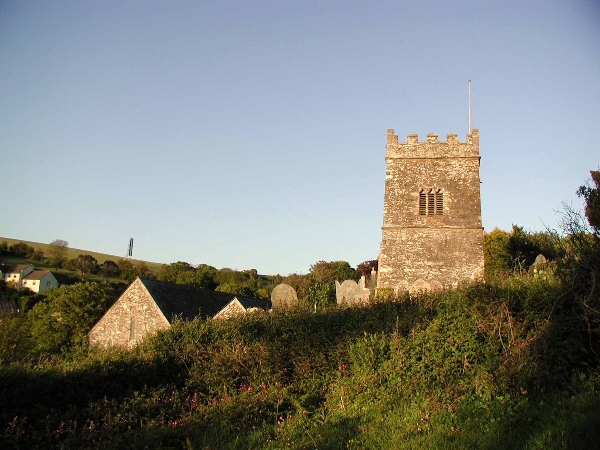 Author: William Norman